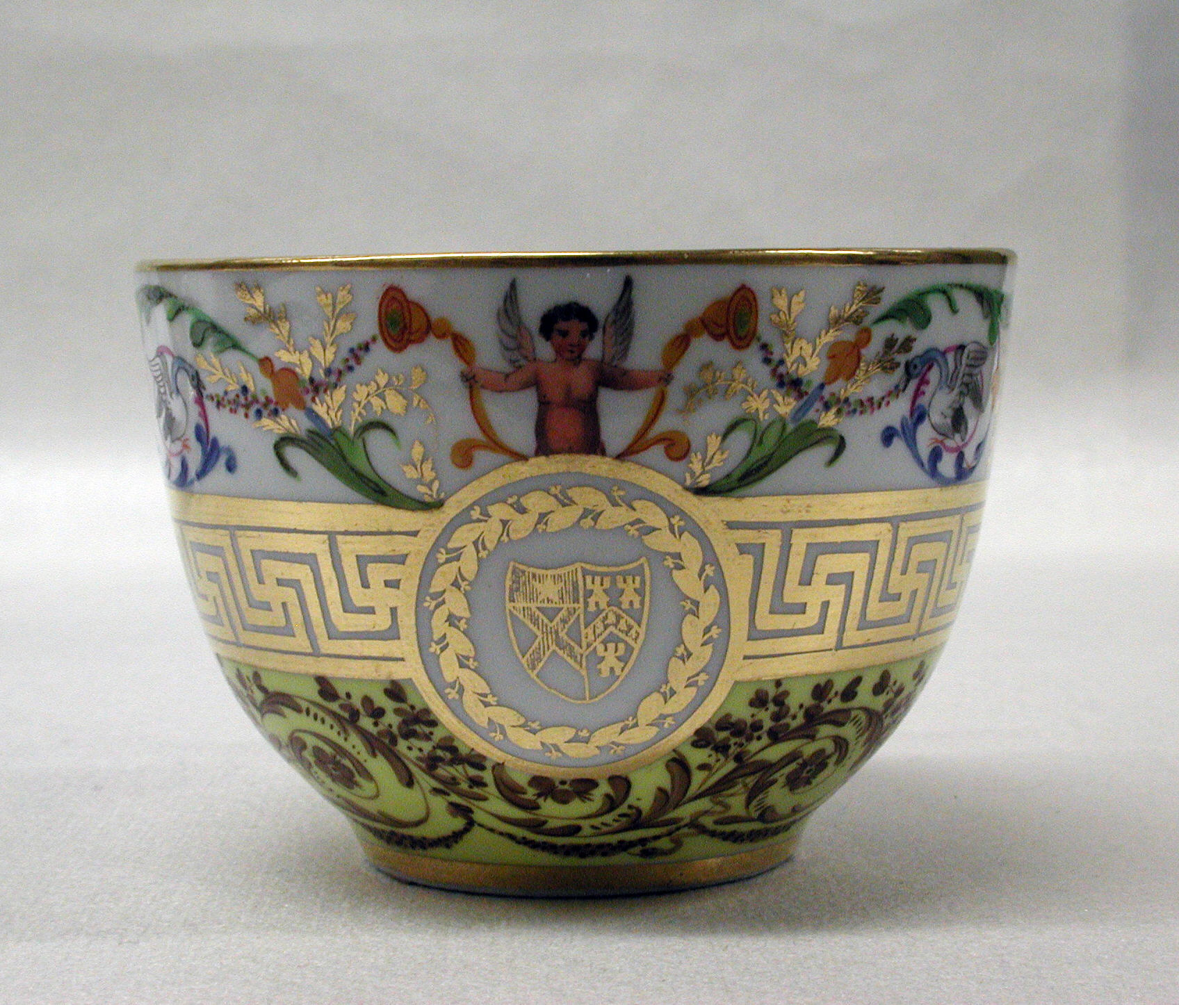 British, Worcester; Teacup and saucer; Ceramics-Porcelain